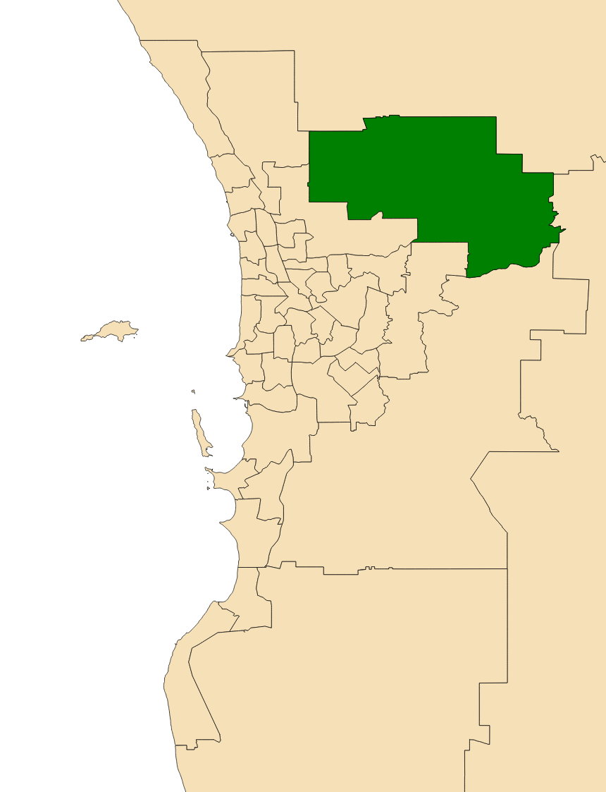 Location of the electoral district of Swan Hills in the Perth metropolitan area, Western Australia as of the 2017 WA state election.